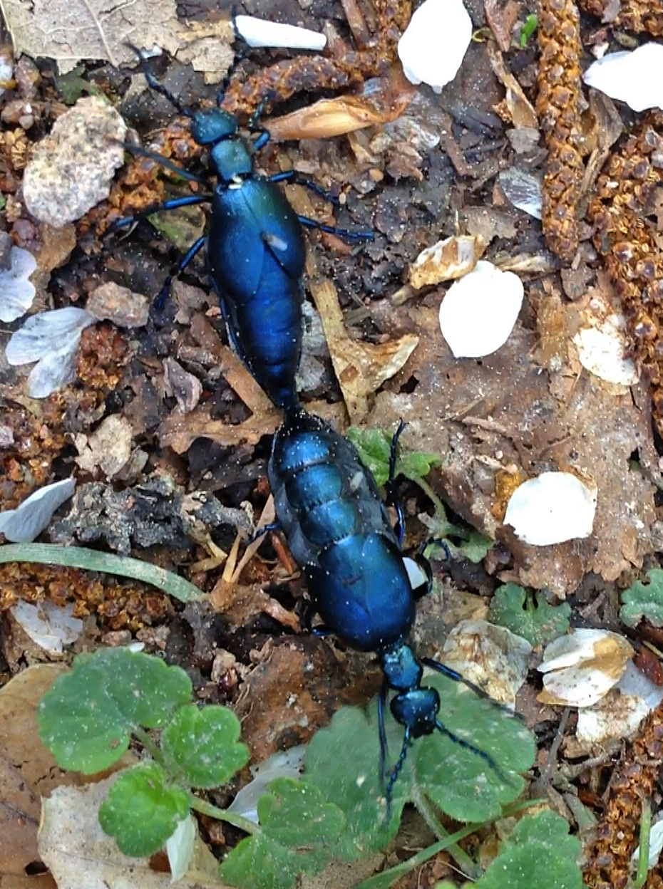 Two European oil beetles mating. Photographed in southern germany